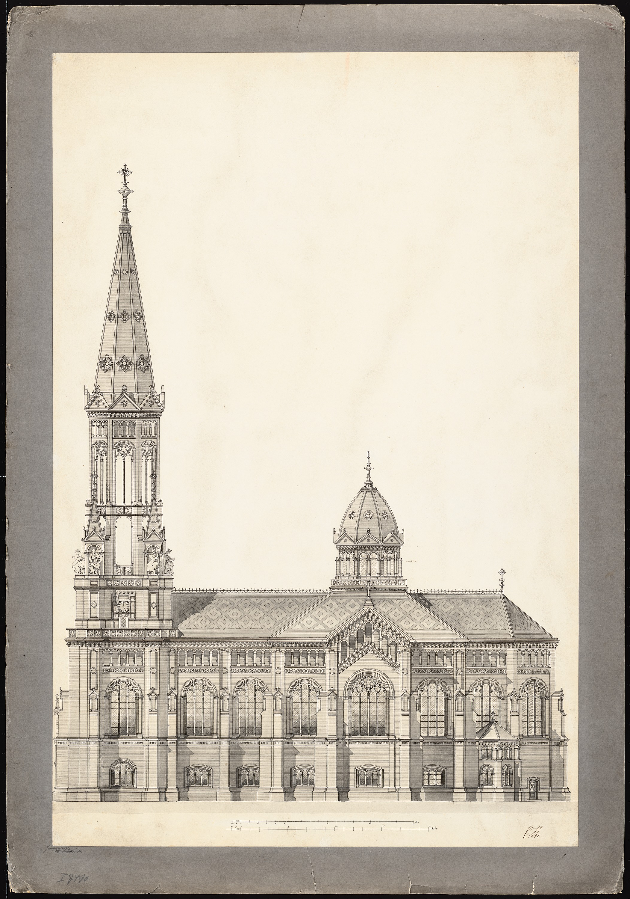 Orth August (1828-1901), Himmelfahrtskirche am Humboldthain, Berlin-Wedding: Seitenansicht. Tusche aquarelliert auf Papier, 111,5 x 78,2 cm (inkl. Scanrand). Architekturmuseum der Technischen Universität Berlin Inv. Nr. 14112.